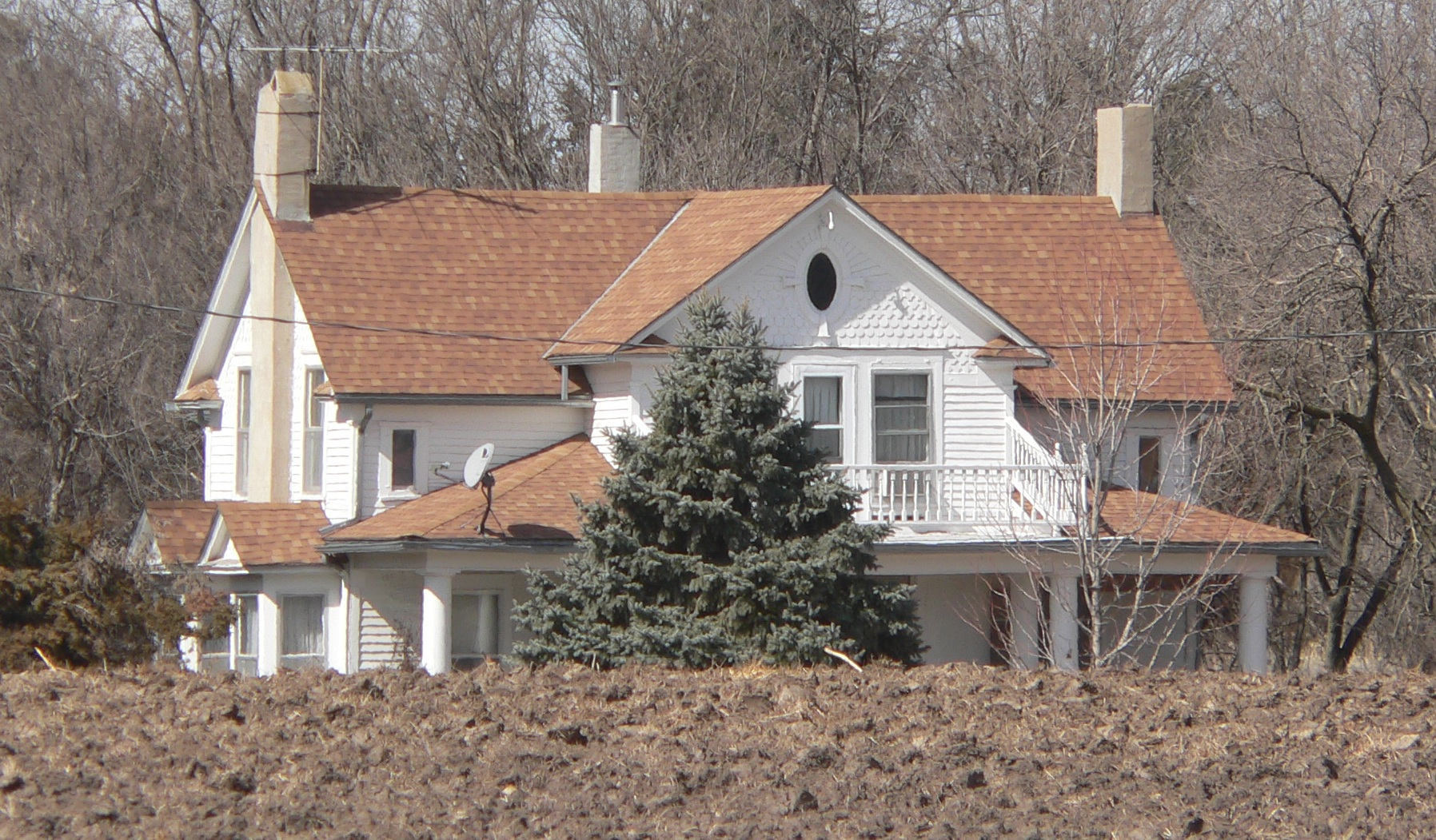 George Cather farmstead, located at 552 Road T in Webster County, Nebraska: house, seen from east-southeast.